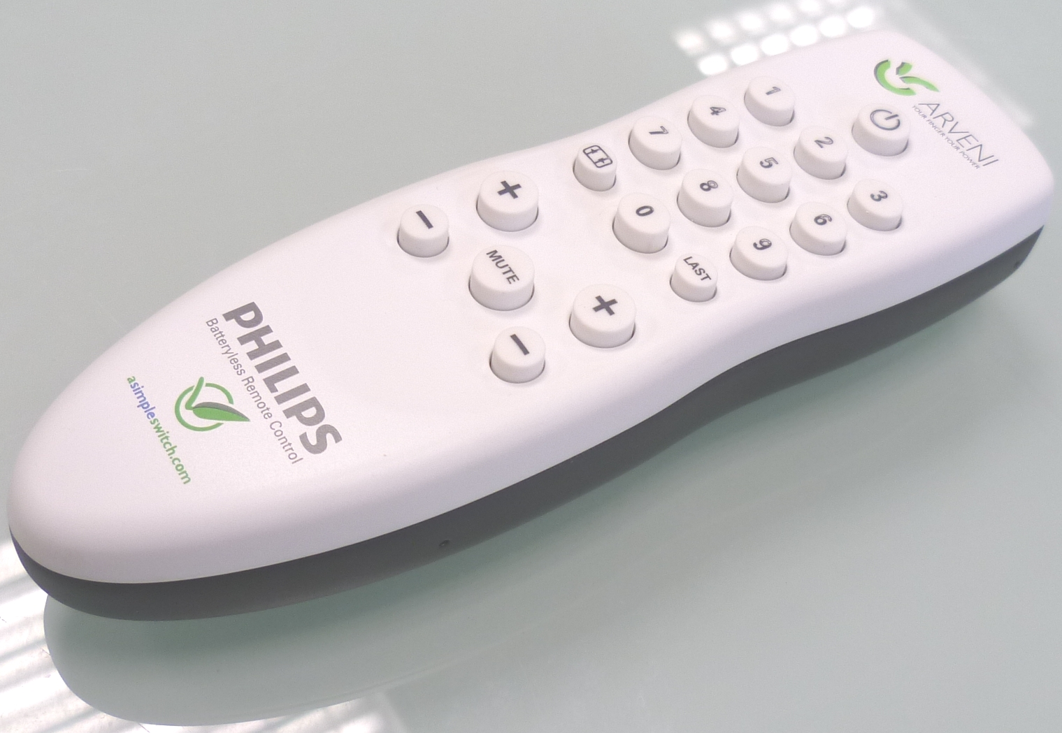 Batteryless TV remote control from Philips & Arveni sas as presented at CES show. This remote is powered by microgenerators, a new renewable energy !